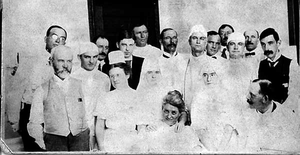 Dr. Guthrie spent three years and four months as an intern at Mayo Clinic in Rochester, Minnesota, where he assisted in nearly 4,000 operations. In this photograph taken at Mayo Clinic, Dr. Guthrie is third from the right. Beside him, also in surgical attire, is Dr. William Mayo; Dr. E. Star Judd is third from left. Others in photograph are Dr. Augustus W. Stirchfield, Florence Henderson, Sister Joseph, Sister Sylvester and Sir Harold Stiles.